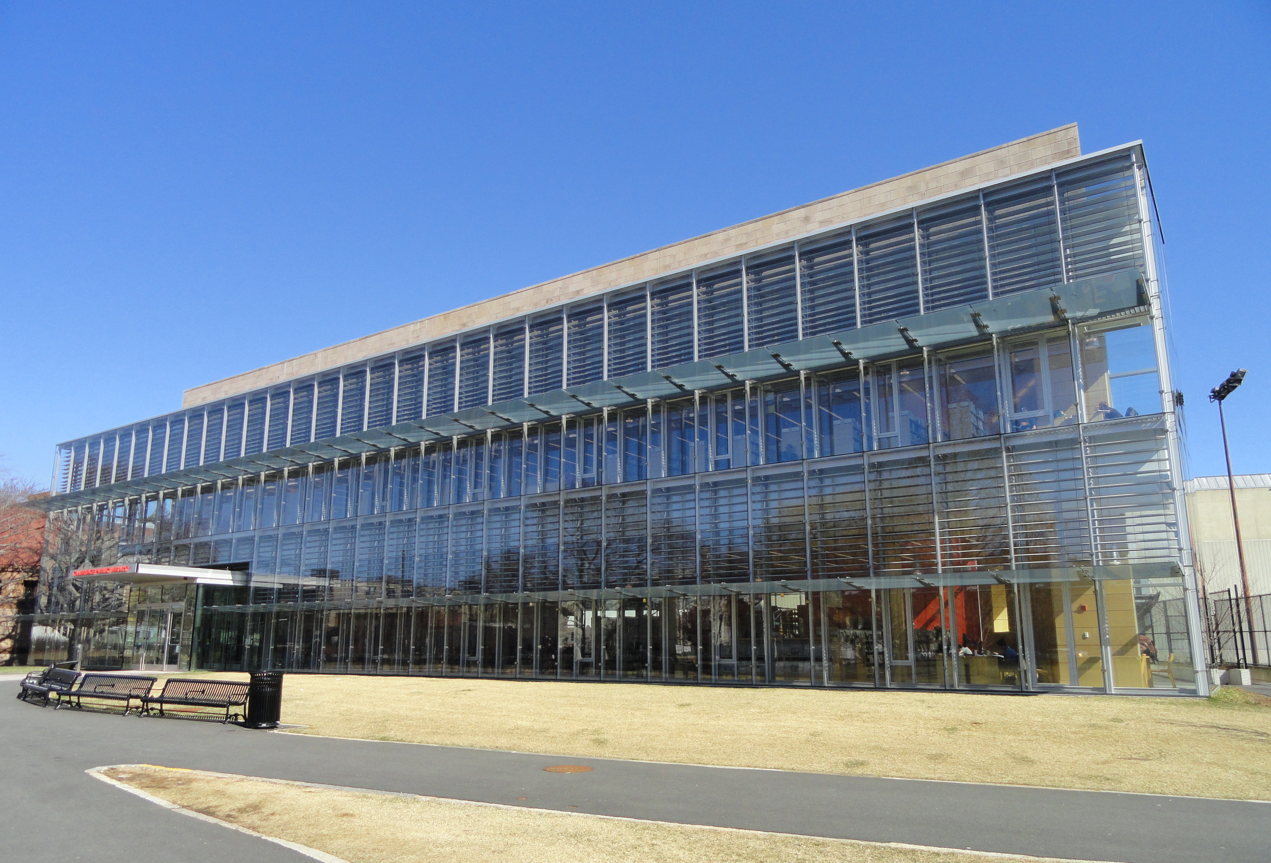 Cambridge Public Library, Cambridge, Massachusetts, USA.